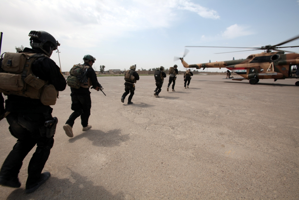 Baghdad, Iraq- Iraqi Special Operations Forces (ISOF) train with the Iraqi Air Force on April 13. Members of the Combined Joint Special Operations Task Force-Arabian Peninsula (CJSOTF-AP) advise, train, and assist Iraqi Security Forces during Operation New Dawn. (Photo by Army Sgt. Andrew Jacob, Special Operations Task Force-Central)